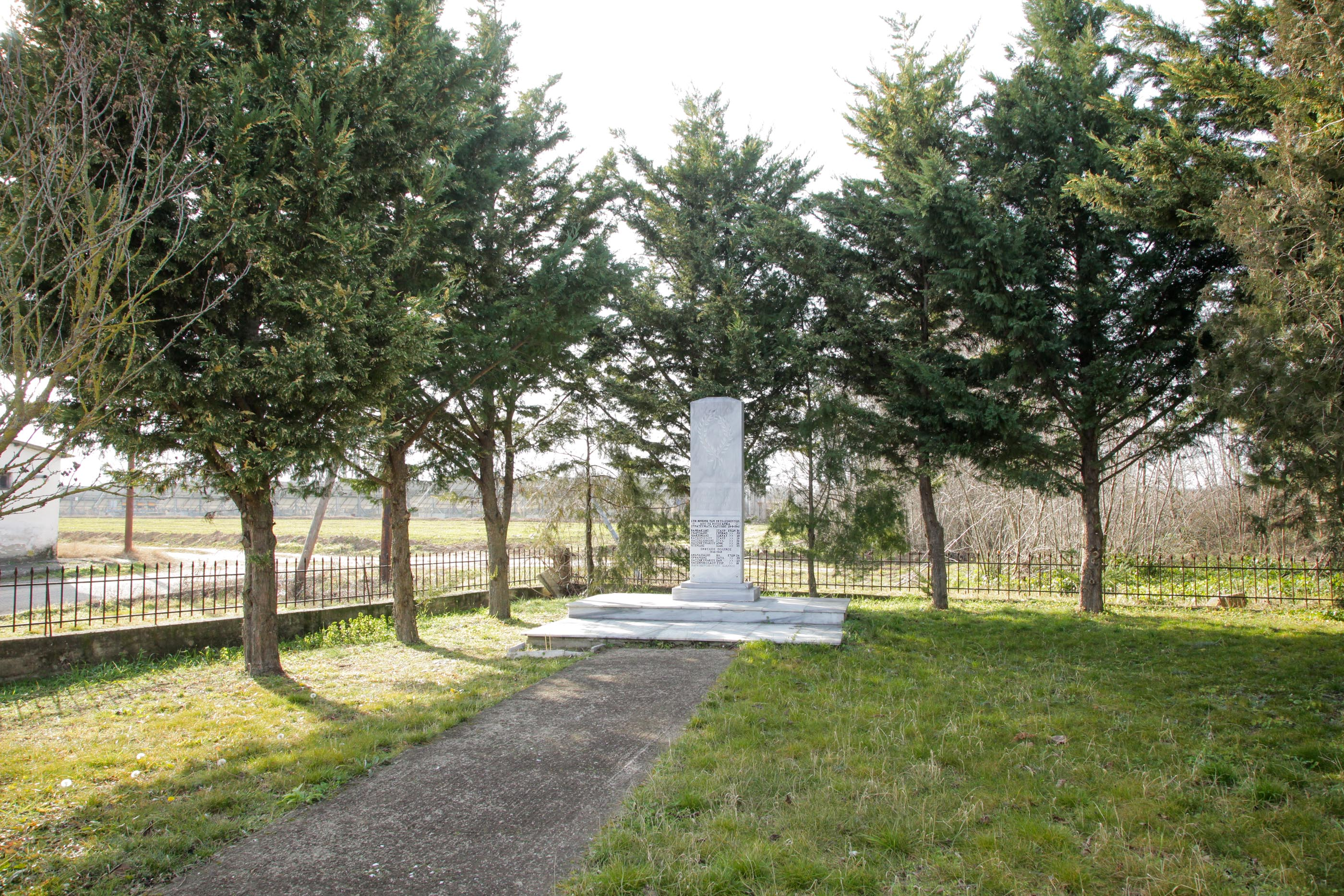 Memorial of the heroes of Grammeni fallen in the wars